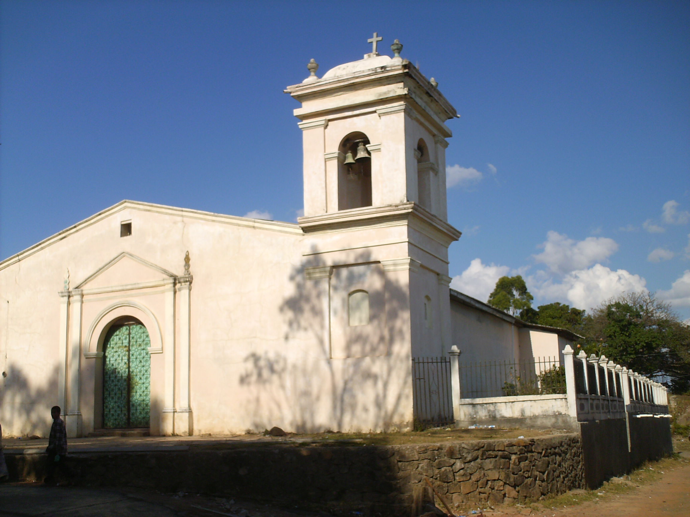 Valladolid, municipality in the Honduran department of Lempira.